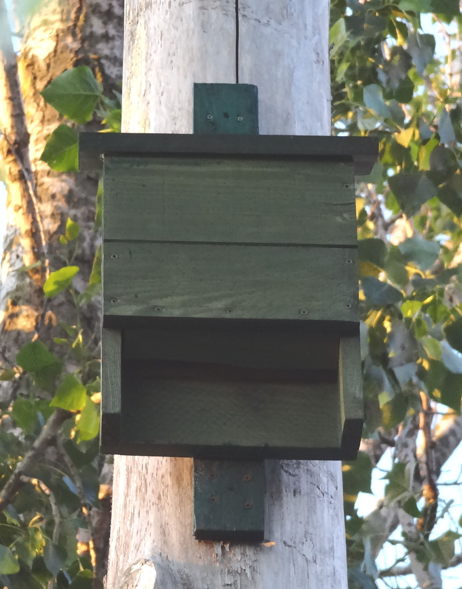 nest for bats